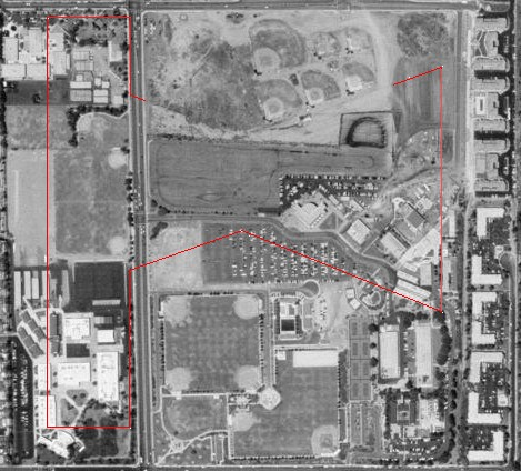 Aerial photo of Miramar College and Hourglass Field Community Park with the lost parts of the outline of Hourglass Field superimposed. The outline and the size and positioning of the outline are based on photographs at freeman/CA/Airfields CA SanDiego N.htm#hourglass Abandoned & Little-Known Airfields: California: Northern San Diego Area. The outline was traced from freeman/CA/Hourglass CA 45.jpg this photograph, an overhead-view arial photo on the above page. The scale is based on a length of 2,400 feet for runway 18/36 (the north/south runway). Other evidence of the scale is the alignment of the western edge of runway 18/36 compared with the taxiway leading to Runway 28 at MCAS (NAS) Miramar as seen in freeman/CA/Hourglass Miramar CA 56.jpg this photograph, another aerial photo on the above page. This is compared to the position of the indent of the "hourglass" in the still-visible remains of the runway system. The apparently-still-visible eastern edge of the runway system in freeman/CA/Hourglass CA 00.jpg this photograph, the color aerial photo of Miramar College on the above page is further evidence of the scale and positioning. The original photo was public domain because it was a work by the United States Government. The modified photo is copyright 2006 by Bob DuHamel and licensed under the GFDL.